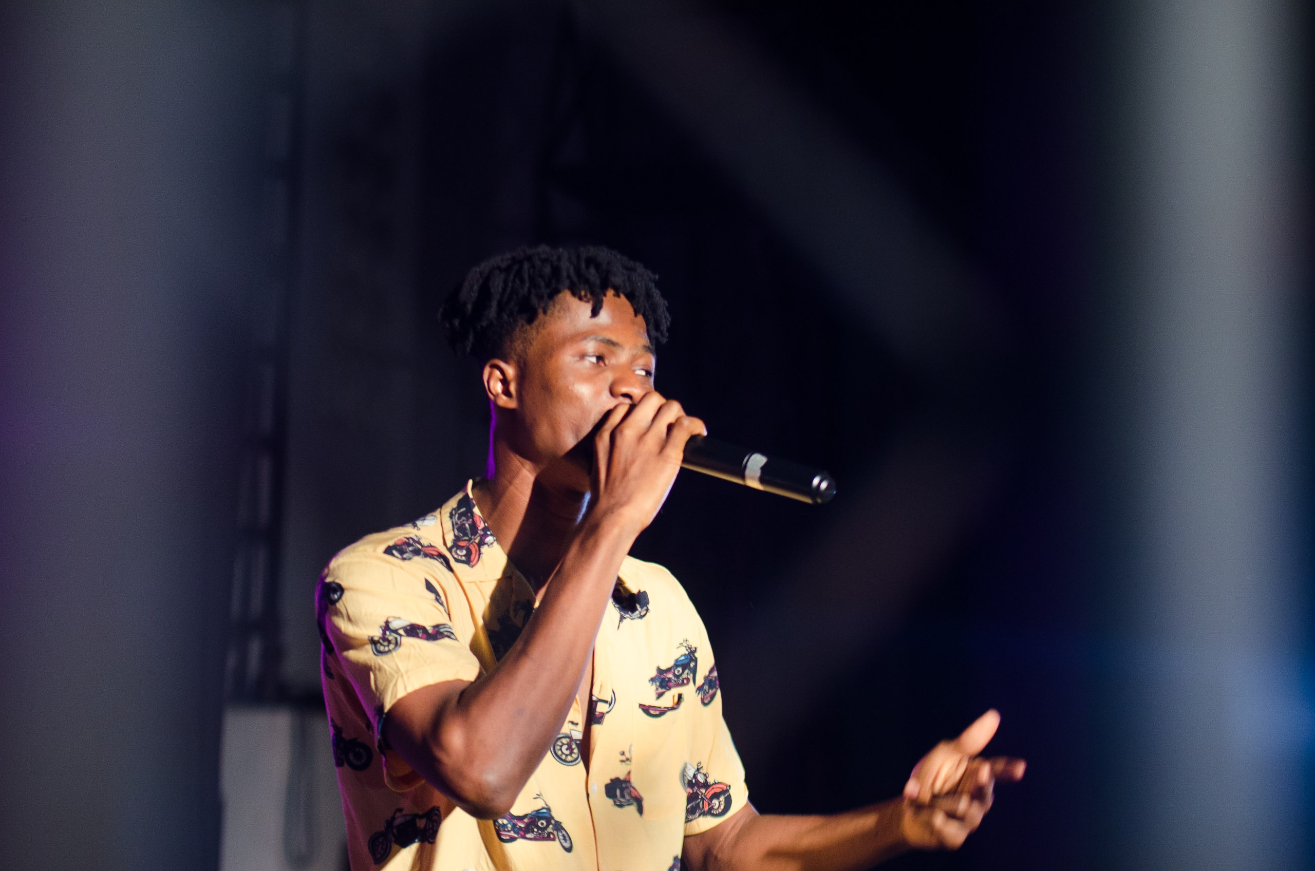 Kwesi Arthur performing at the Alliance Francais during a concert.